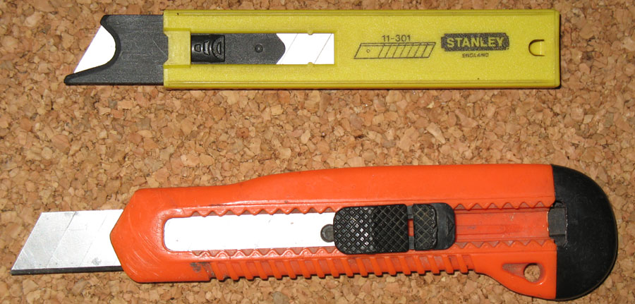 Stanleykniv og tilsvarende afbræksblade. This file was made by B. M. Askholm, Please credit this: B. Askholm photo, 2006 An email to B. Mathias at baskholm(--) would be appreciated too.